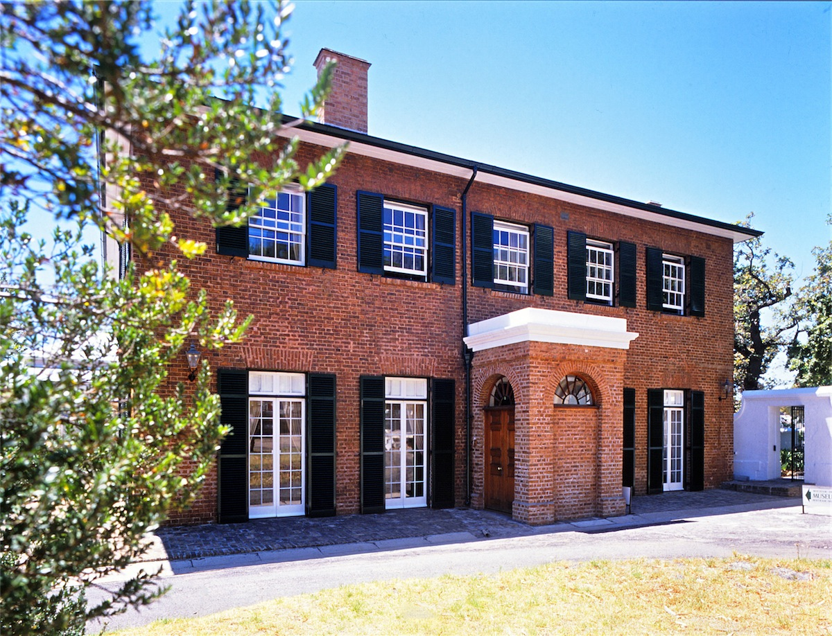 This media shows a South African Protected Site with SAHRA file reference 9/2/018/0190.